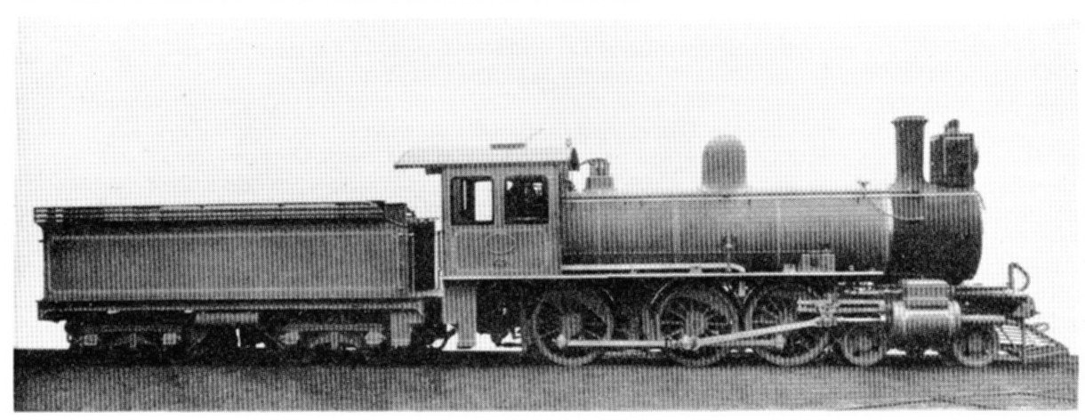 Ex Cape Government Railways Class 6 (4-6-0) South African Railways Class 6F (4-6-0)